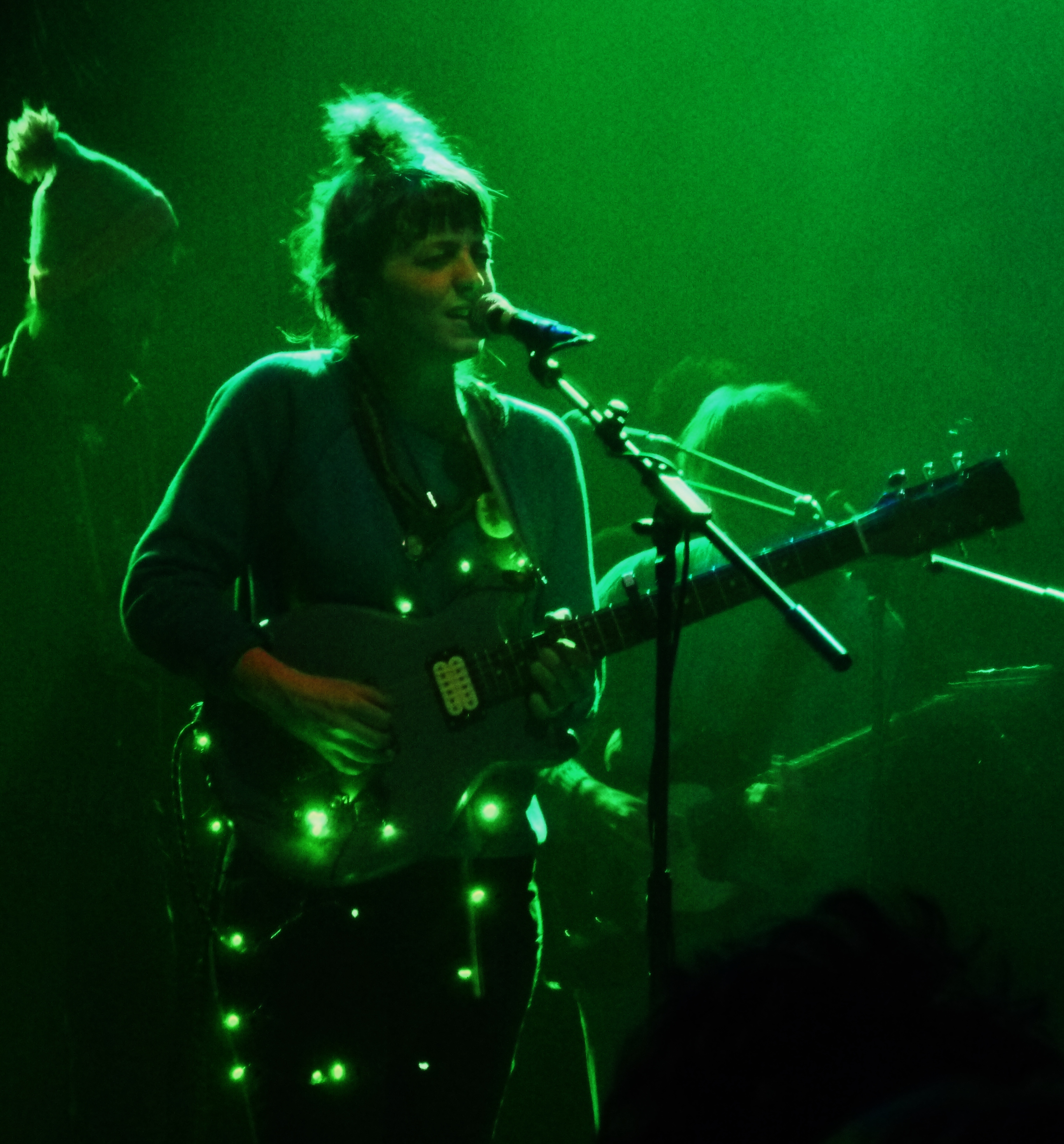 Rozi Plain, supporting Slow Club at their Christmas show at Koko, December 17th 2012.